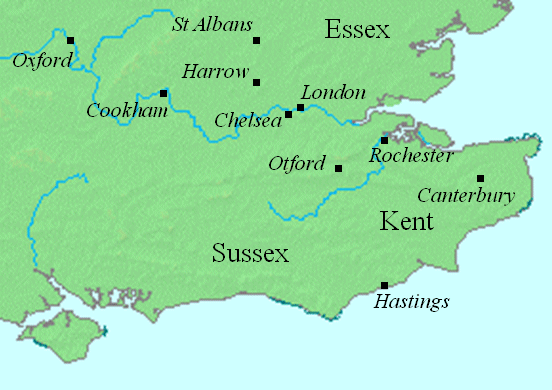 This map shows locations in southeastern England relevant to the article on Offa of Mercia. This file was created using DMIS. On that site it is stated that "We do not claim copyright on the images, so you can use them for Wikipedia."